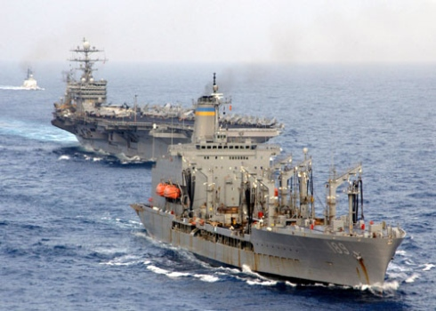 The United States Navy fleet replenishment oiler USNS John Lenthall (T-AO-189), right foreground, prepares to refuel the aircraft carrier USS Harry S. Truman (CVN-75), left, in the Mediterranean Sea. The United States Coast Guard Cutter USCGC Dallas (WHEC-716) is in the left background.